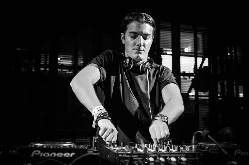 Photograph of Alesso playing live at Ushuaia, Ibiza